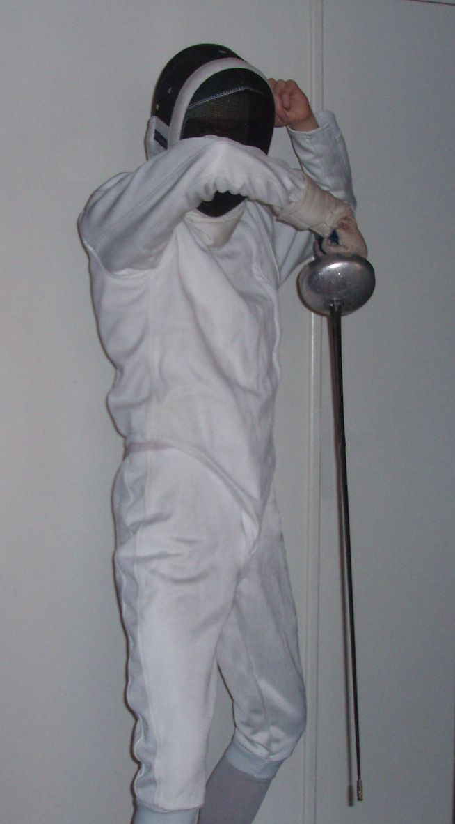 First position in Fencing (Prime)